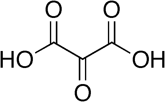 chemical structure of mesoxalic acid